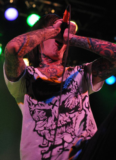 The Opera House-Toronto,ON